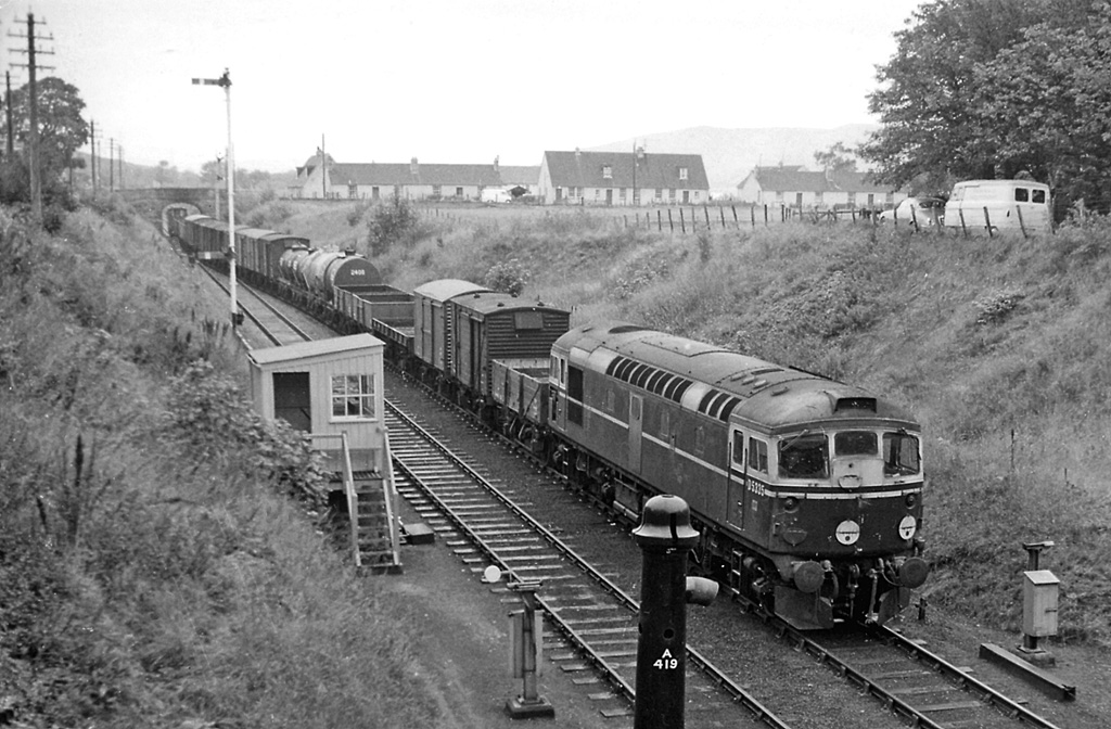 Up freight train approaching Bonar Bridge Station, Ardgay. View NW, towards Lairg, Thurso and Wick, ex-Highland Far North line. Diesels were just taking over in 1962, this one being Birmingham/Sulzer Type 2 No. D5335.